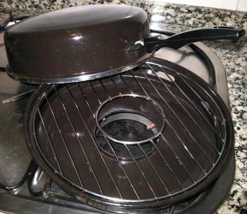 Xurrasquera, a domestic gas stove grill, acts as a oven